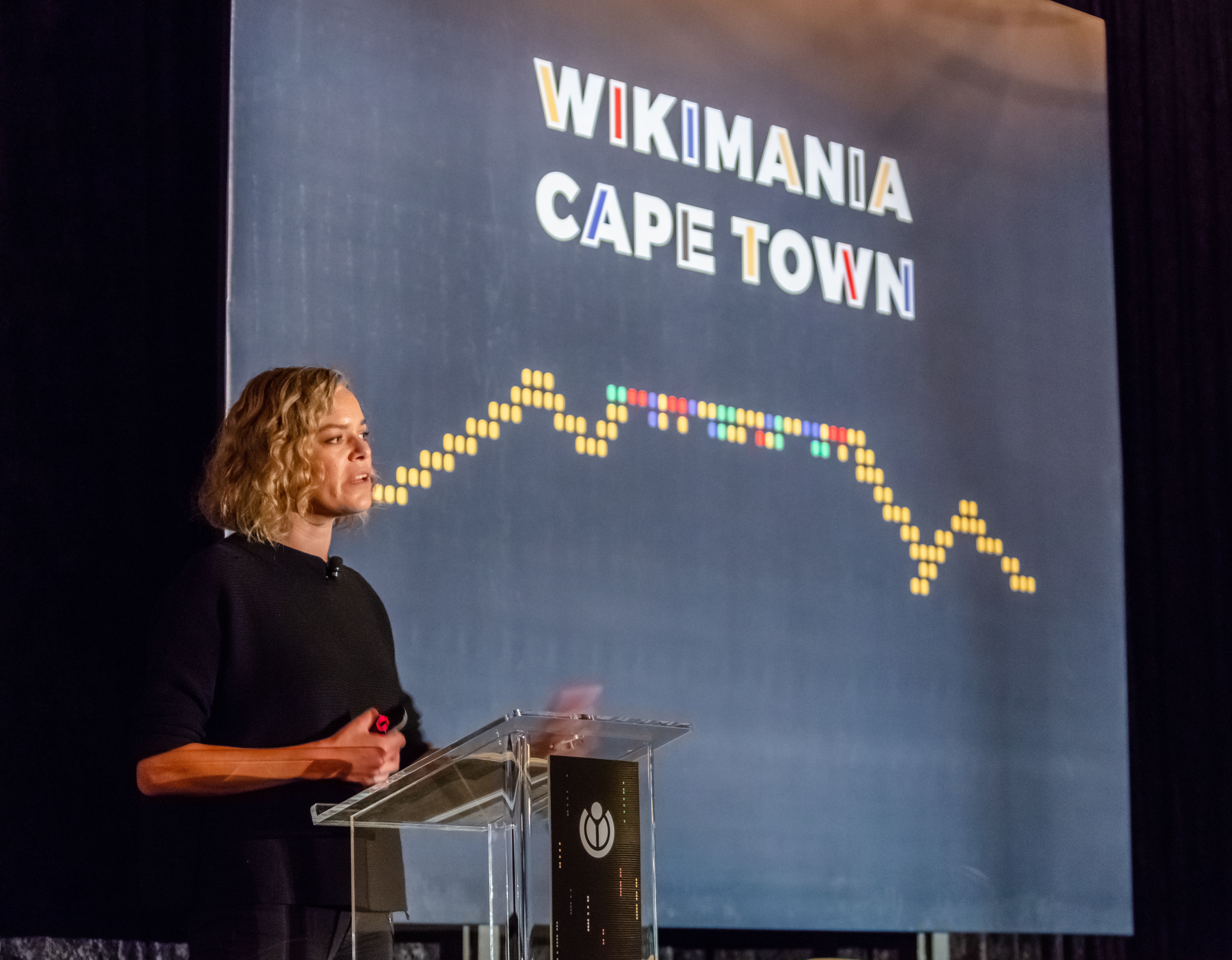 Katherine Maher, Wikimania, Cape Town, South Africa